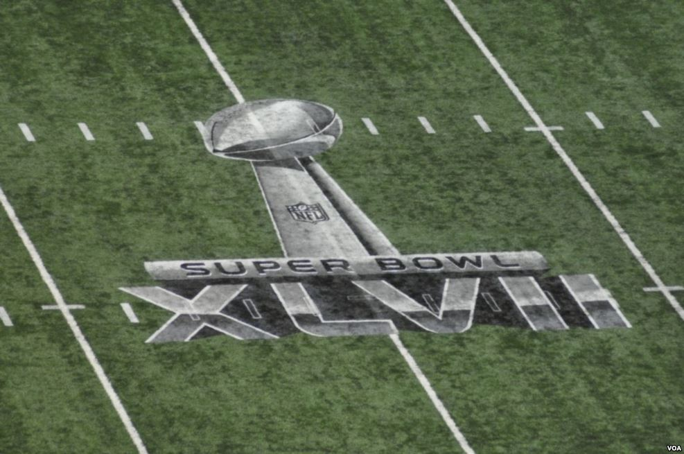 Super Bowl XLVII